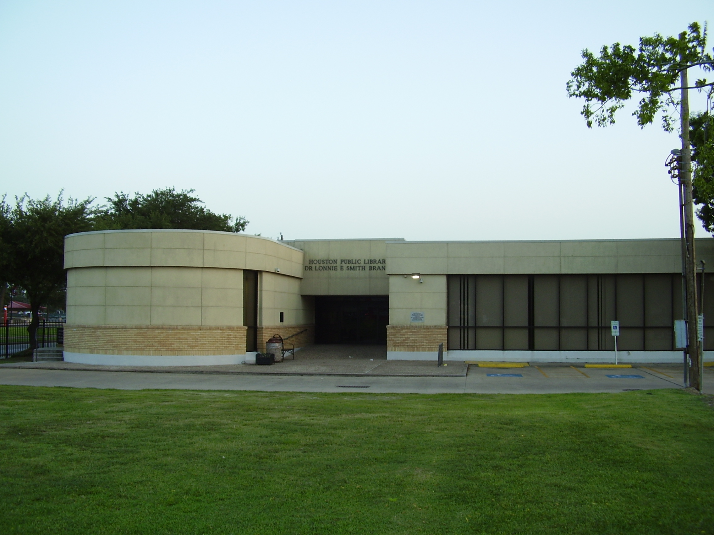 Dr. Lonnie E. Smith Neighborhood Library